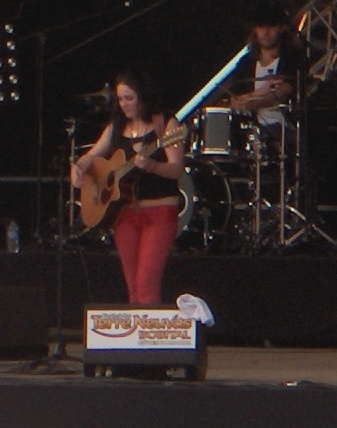 The Scottish singer Sandi Thom at the Festival des Terre-Neuvas in Bobital, France, 2007